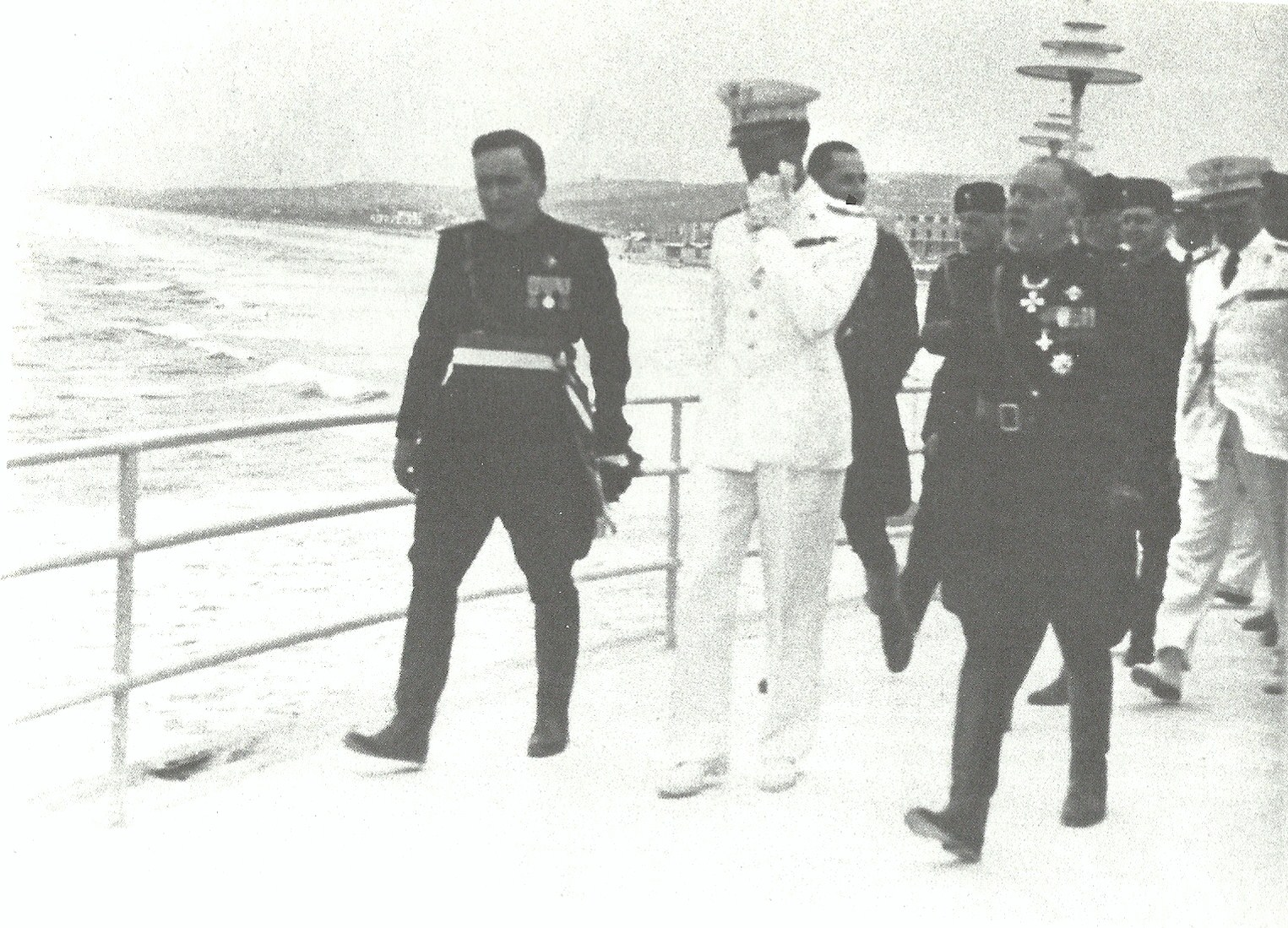 old photograph